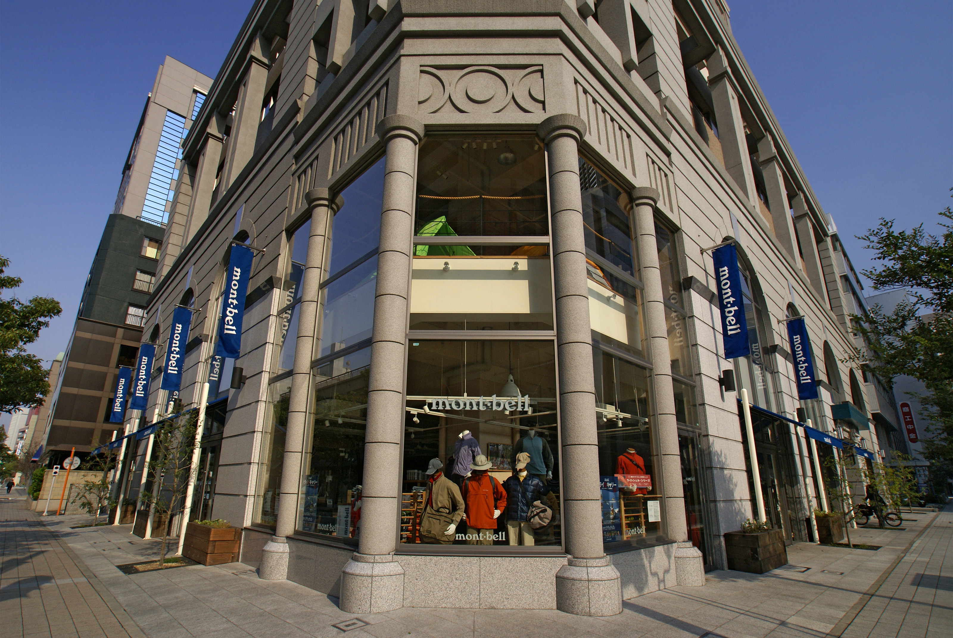 mont-bell club store in Sannomiya, Kobe, Hyogo prefecture, Japan